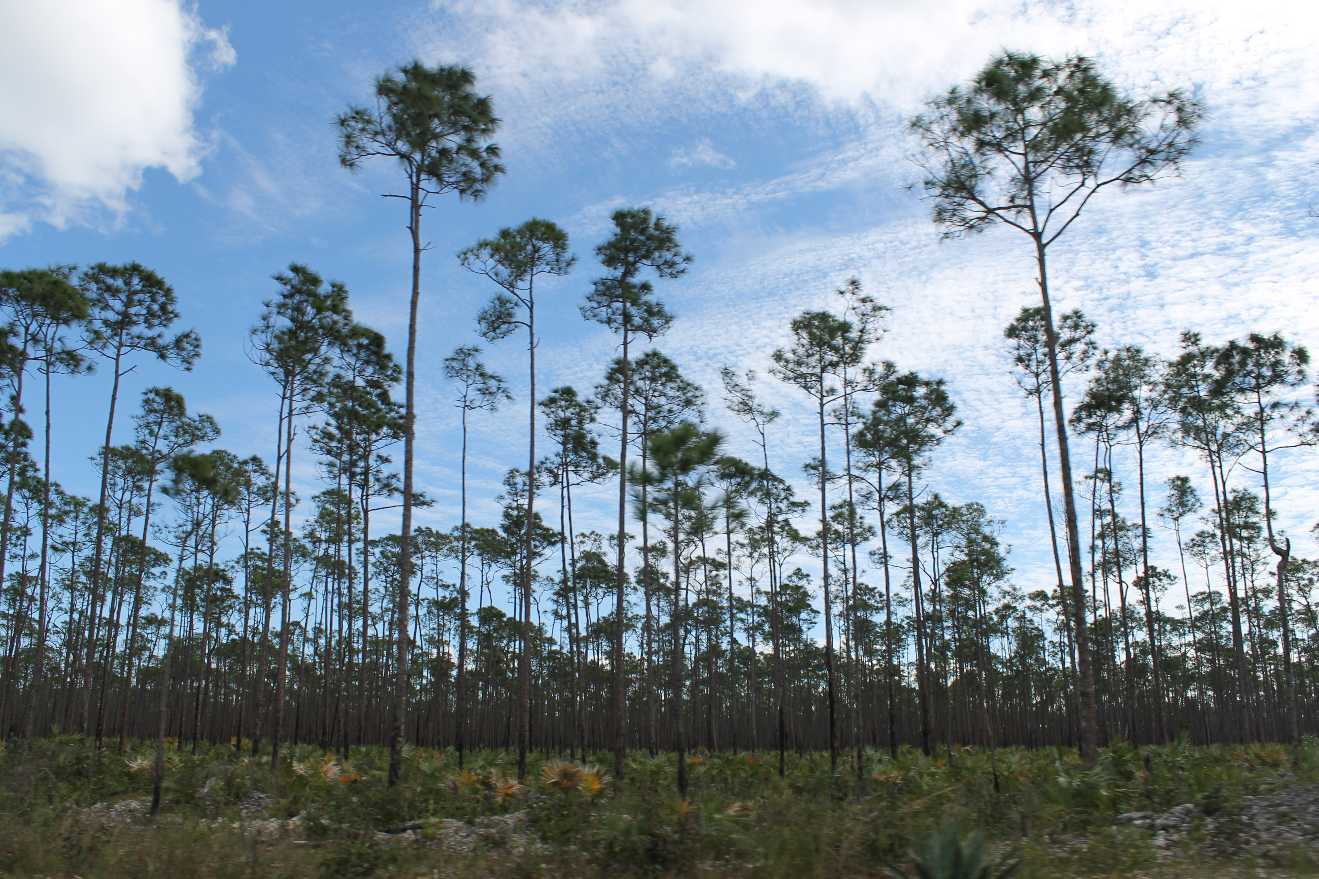 Pinus caribaea var. bahamensis forest on the road to Lucayan National Park, Grand Bahama.